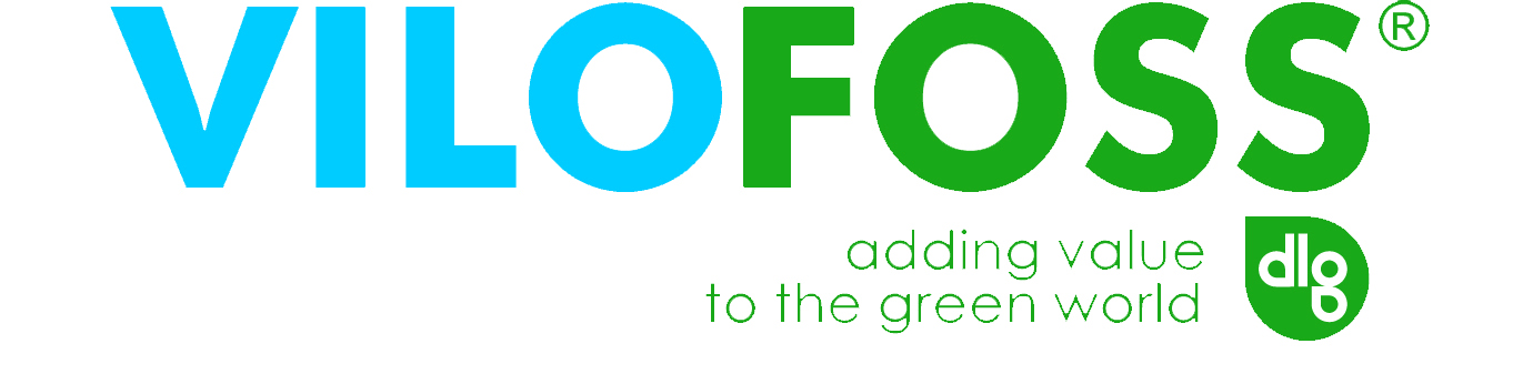 the official Vilofoss logo